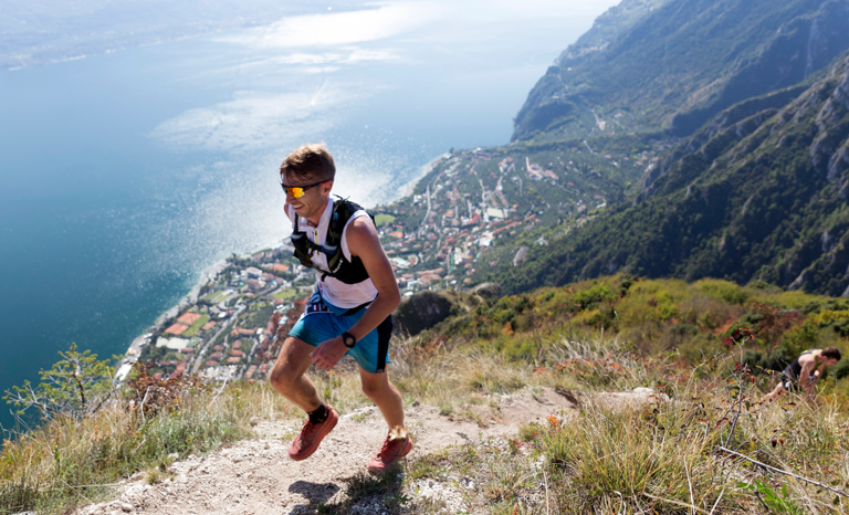 skyrunninng